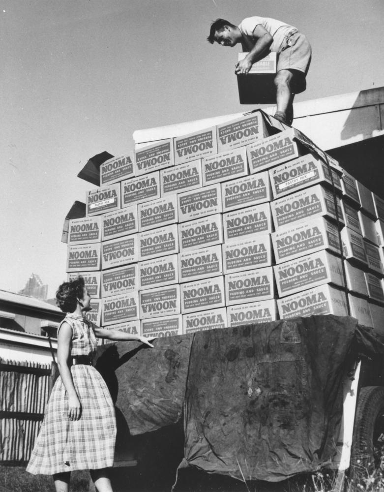 Boxes of Nooma puddings being unloaded.